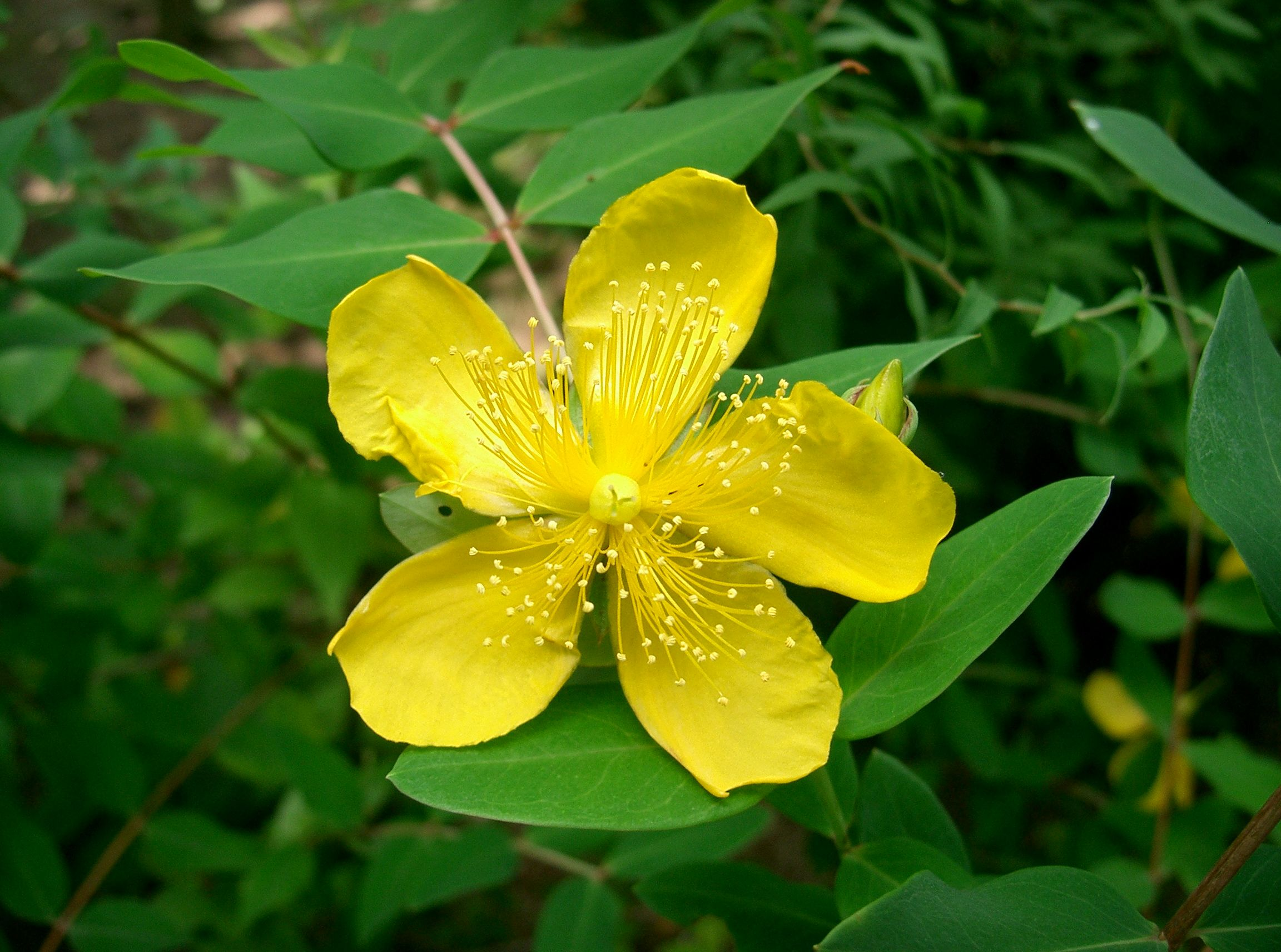 Hypericum monogynum, Osaka-fu, Japan